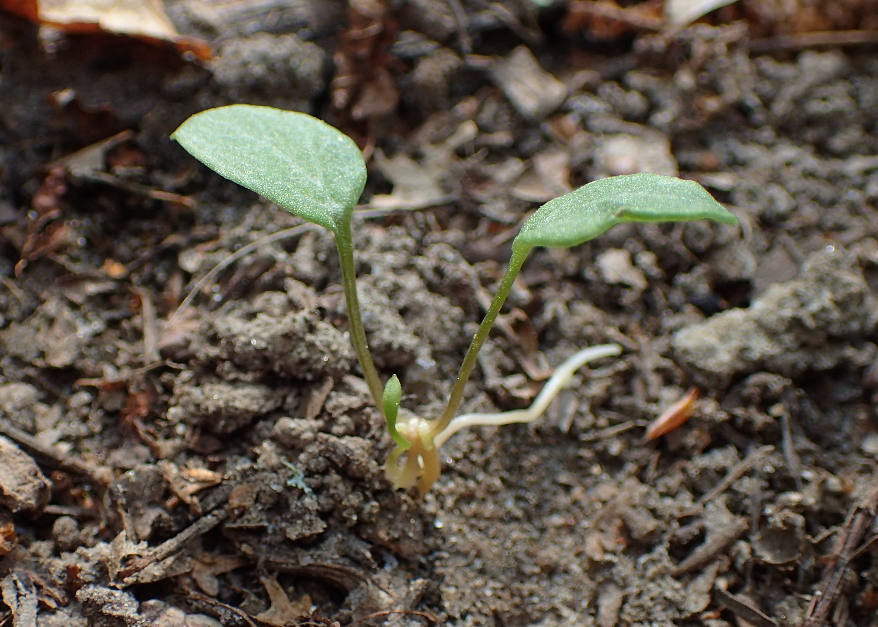 Adoxa moschatellina in Tywa valley in Osuch, near Gryfino, NW Poland